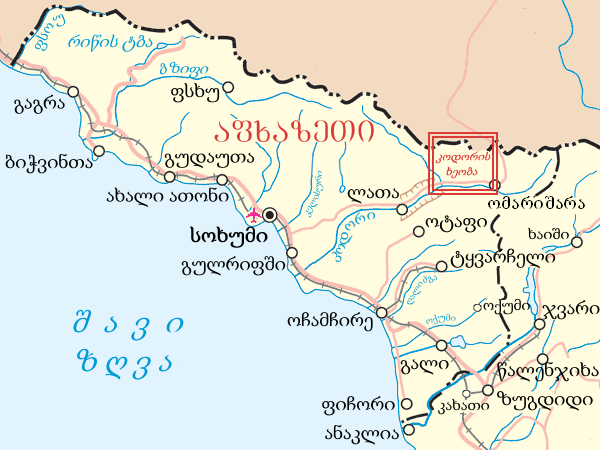 Kodori Valley in Abkhazia, Georgia